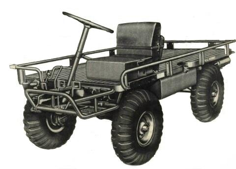 Drawing of M274